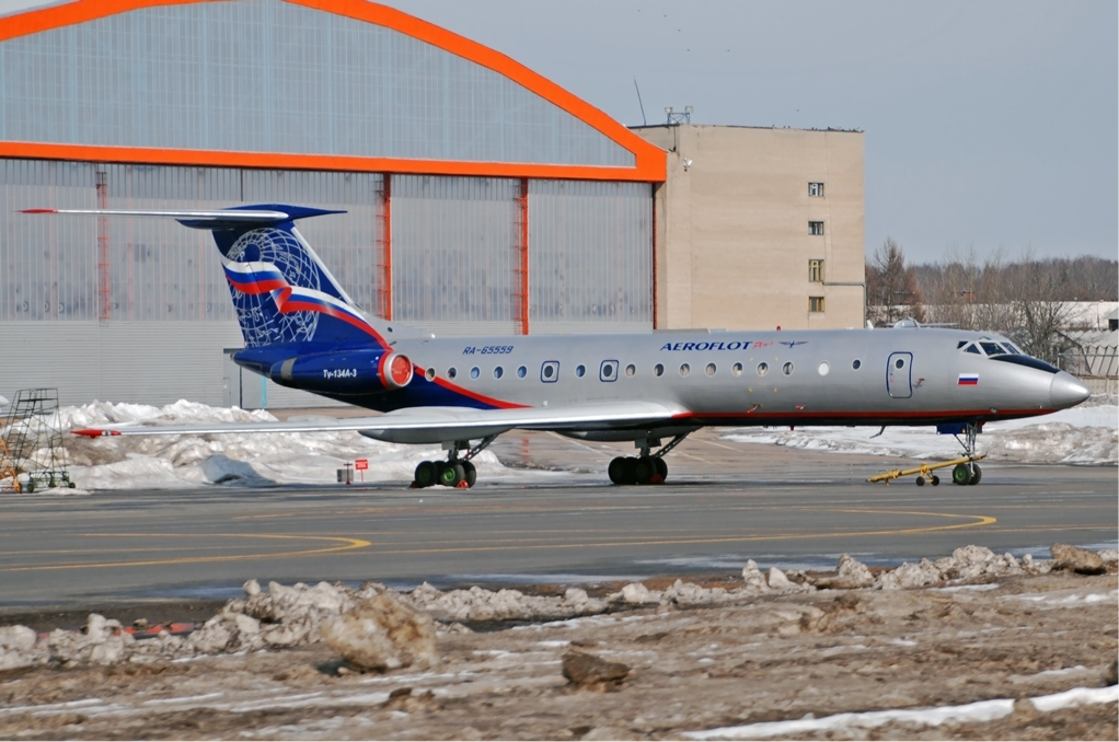 Aeroflot-Plus Tupolev Tu-134 at SVO at day